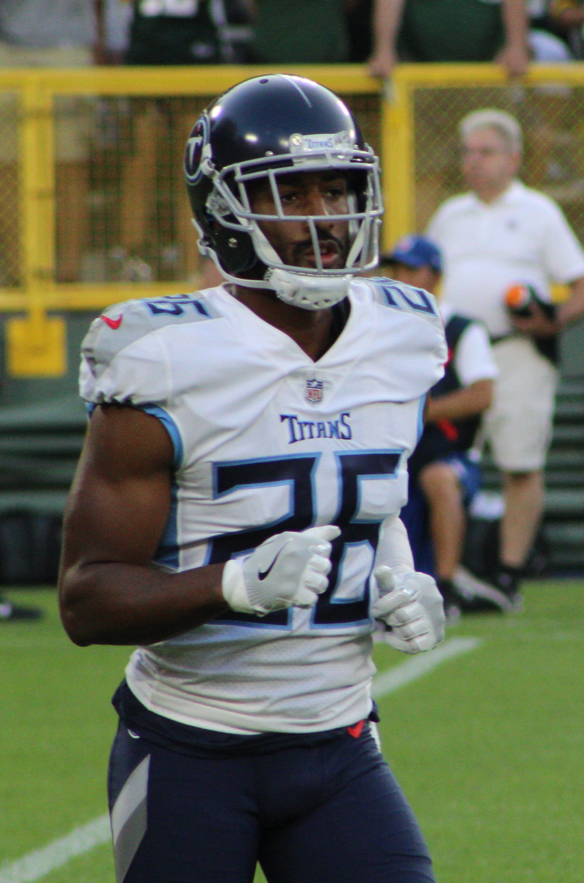 Logan Ryan, Tennessee Titans at Green Bay Packers (Preseason), August 9, 2018